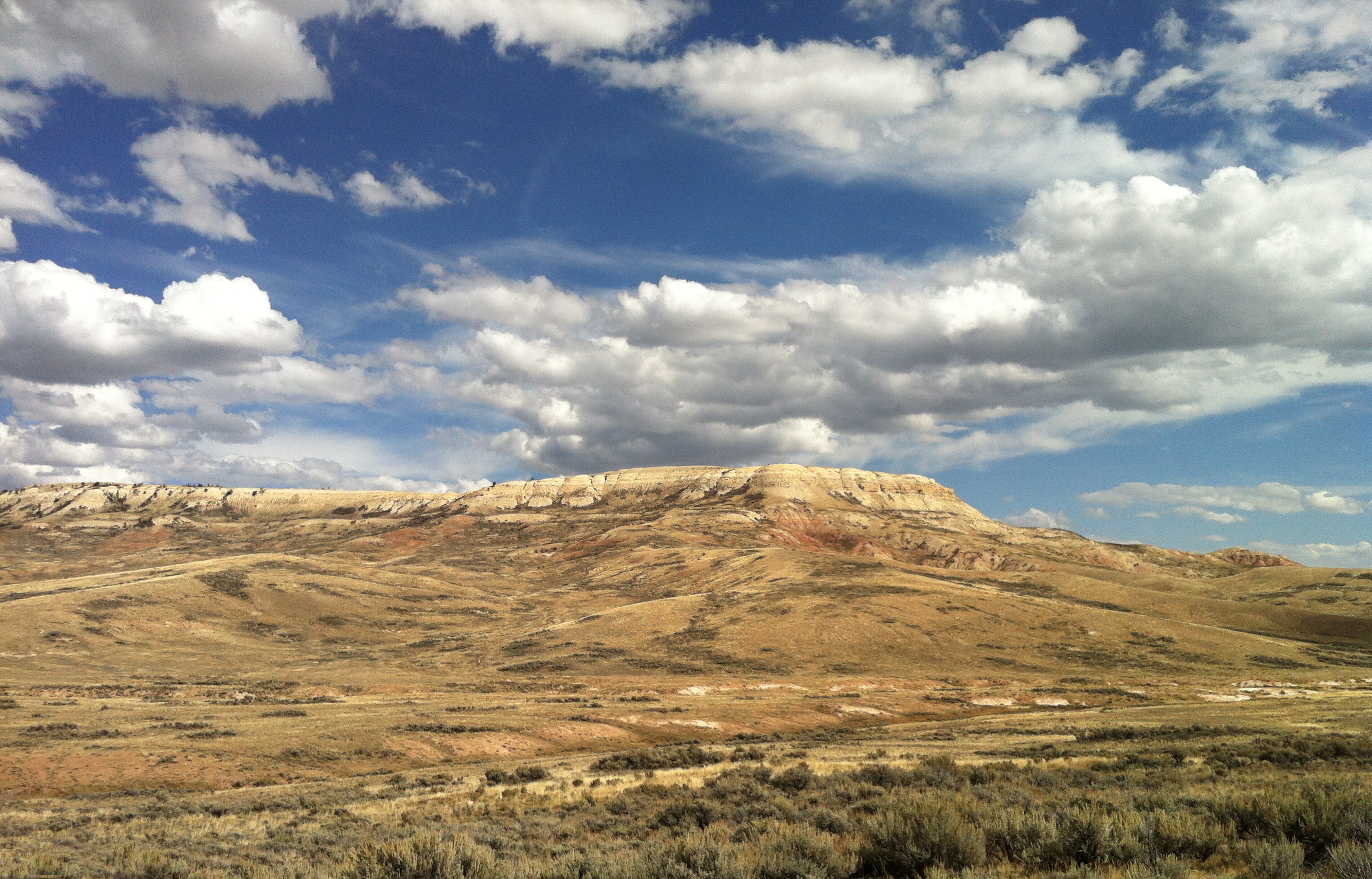 Ridge at Fossil Butte National Monument in Wyoming.